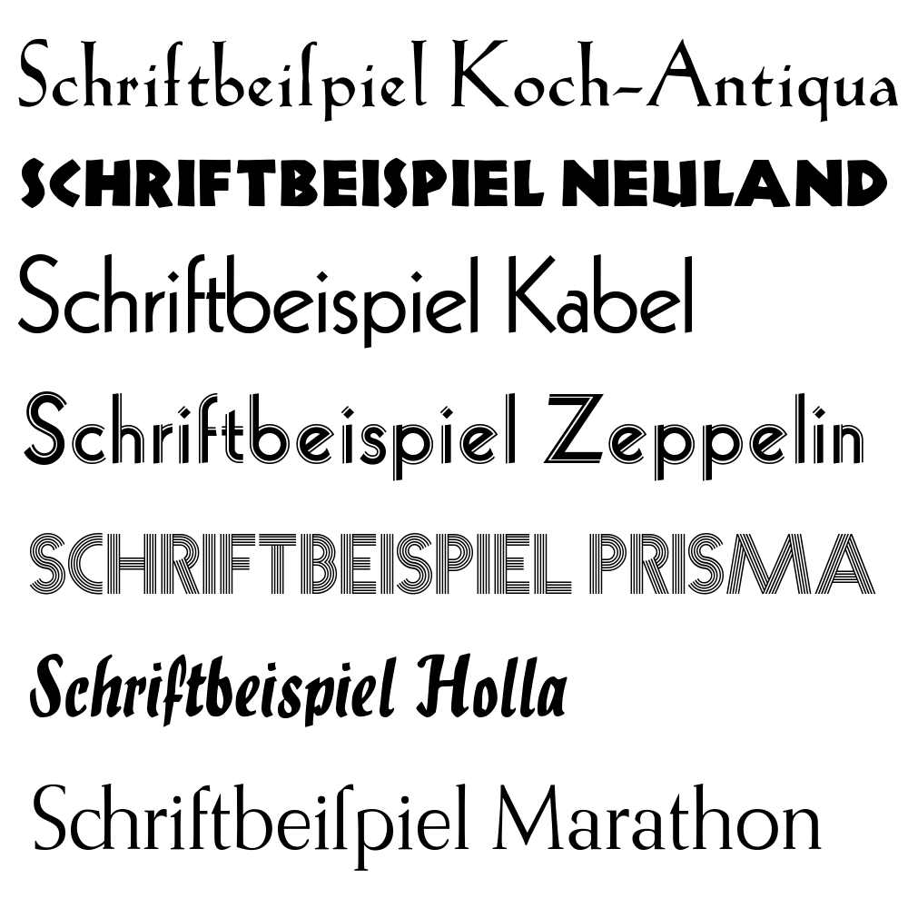 antiqua typefaces by Rudolf Koch